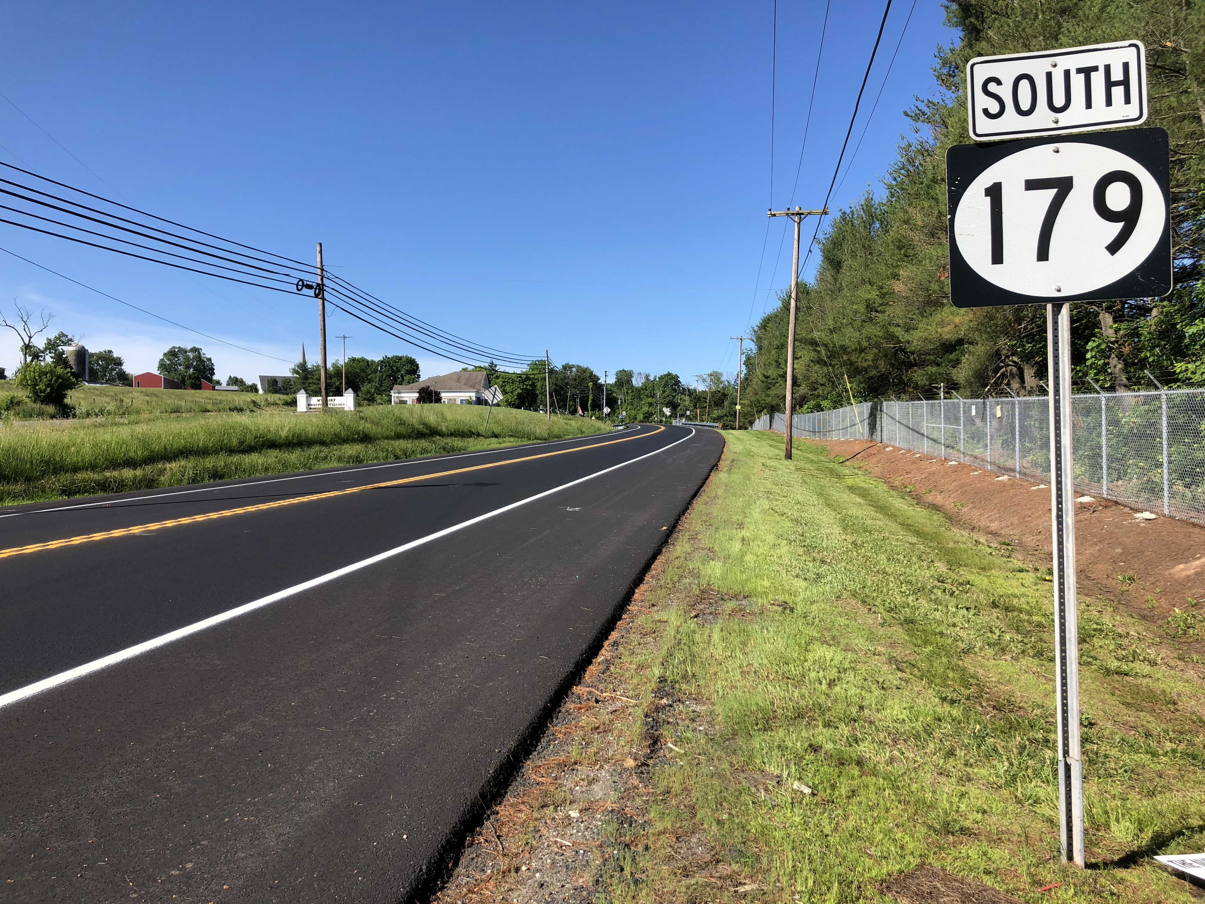 View south along New Jersey State Route 179 at Hunterdon County Route 605 (Queen Road) and Hunterdon County Route 601 (Mount Airy Village Road) in West Amwell Township, Hunterdon County, New Jersey